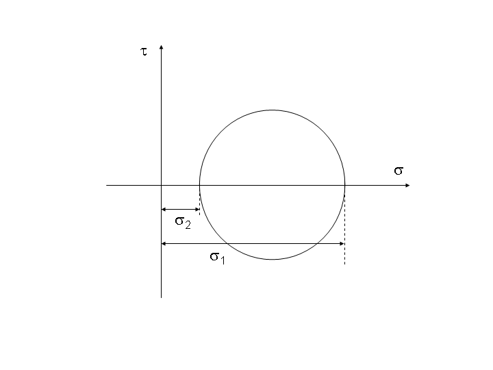 Stage 3 in construction of Mohr's circle. This image is the work of and copyright property of Anthony Cutler